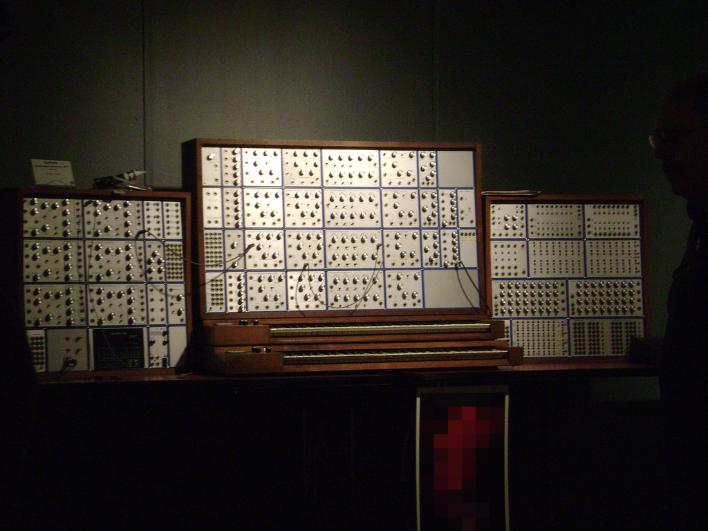 E-mu Modular System (mid 1970s) This modular synthesizer is one of world first modern polyphonic synthesizer (after historical Warbo Formant Organ (1937) and Hammond Novachord (1939-1942)). In 1973, E-mu Systems independently developed polyphonic synthesizer technology (i.e. note assignment using microprocessor), and it was applied on their E-mu Modular System. In afterwards, this technology was also licensed to other manufacturers, and the results are well known Oberheim 2/4/8-voices (1975,1977), and Sequential Circuits Prophet-5 (1977). [1] Cantos Keyboard and synthesizer museum. Calgary AB. February 2010. References Formula Filter Array 24. MATRIXSYNTH (2007-07-16). "Brandon7/16/07, 2:25 PM - That thing looks hot! We have Patrick Gleeson's old E-mu modular here in Calgary AB which is undergoing an overhaul by our technitian right now." See also category: Formula Sound Multiple Resonance Filter Array 24.